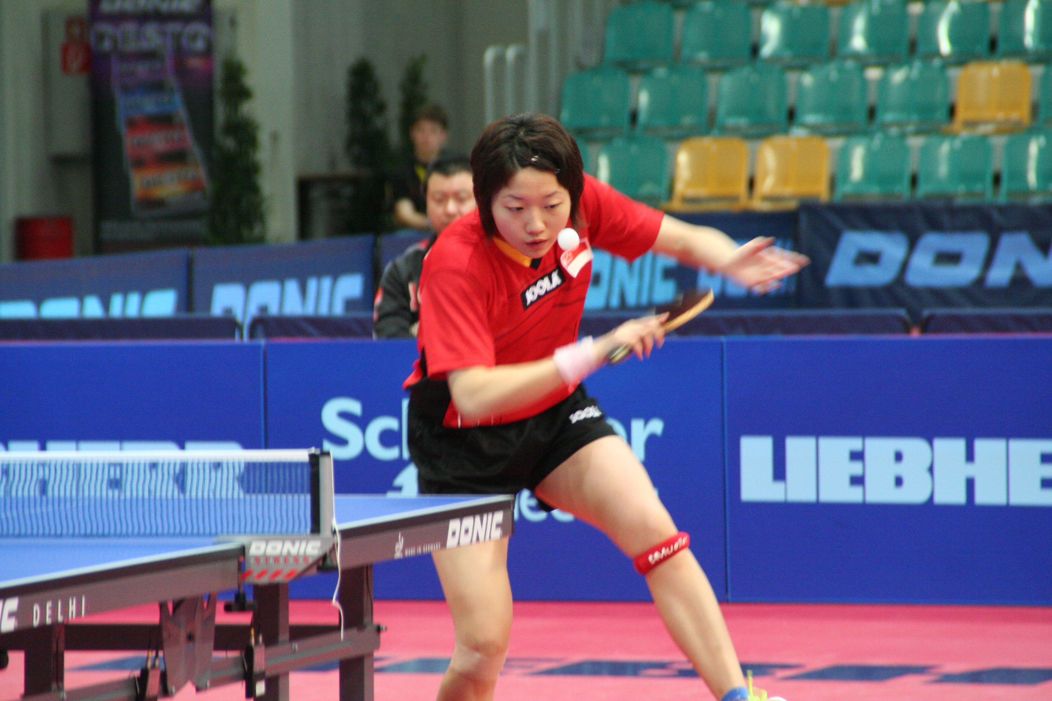 Singaporean Olympic table tennis player Li Jiawei (born 9 August 1981) at the International Table Tennis Federation Pro Tour Liebherr Austrian Open in Wels, Upper Austria, Austria.